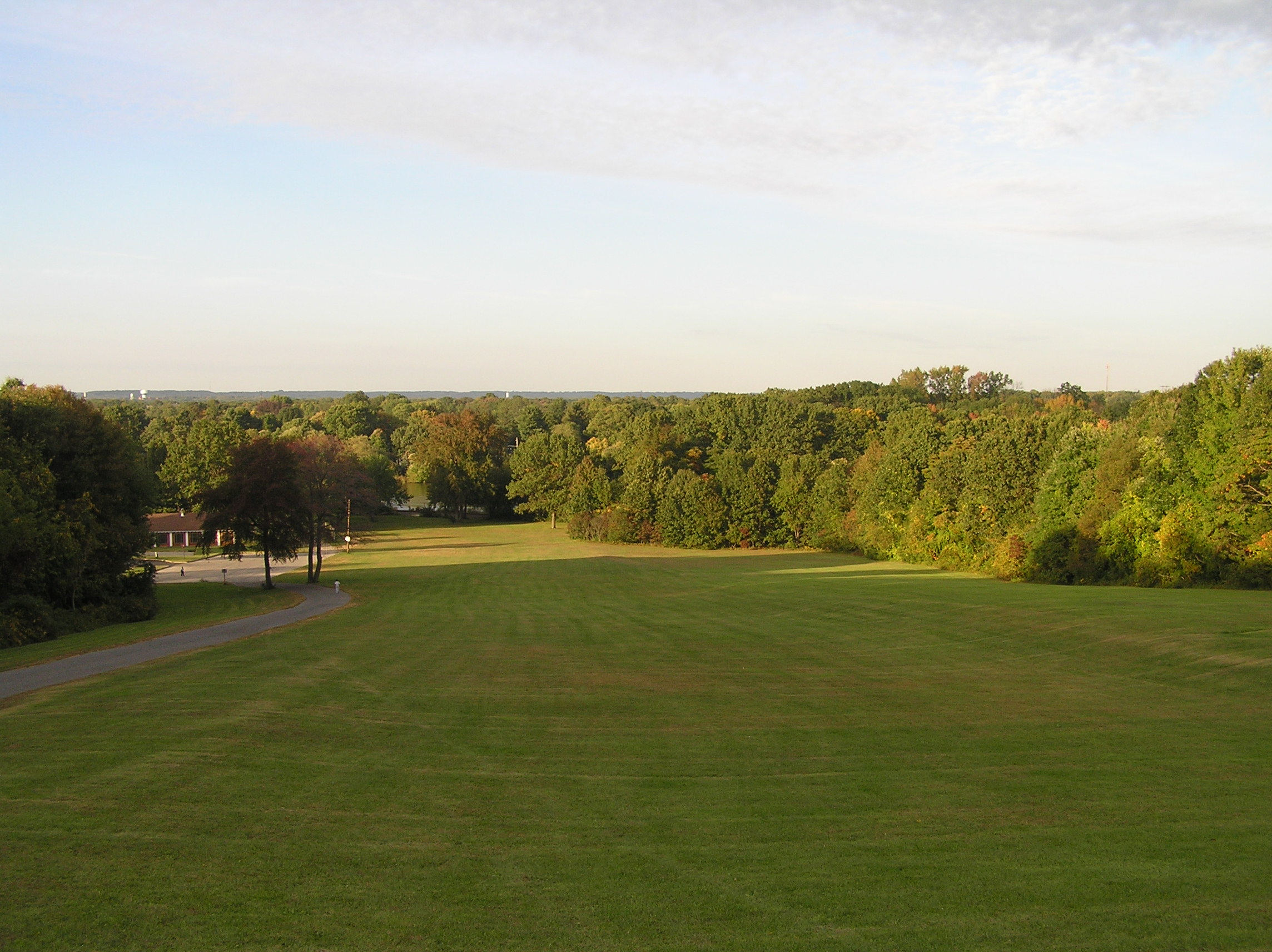 A view of the landscape at Thompson Park in Monroe Township, NJ.